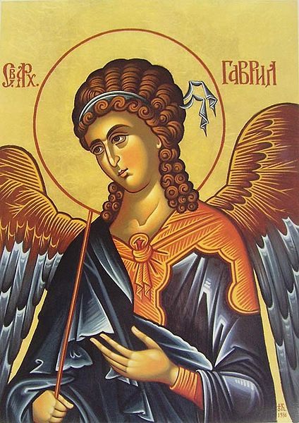 Gabriel